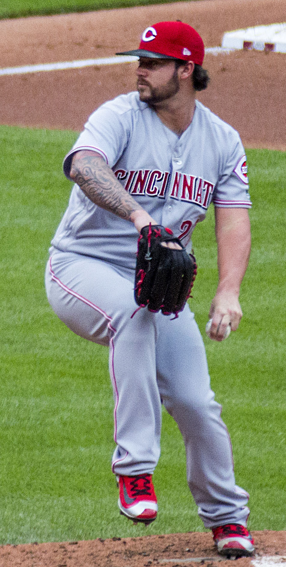 Brandon Finnegan of the 2017 Cincy Reds.